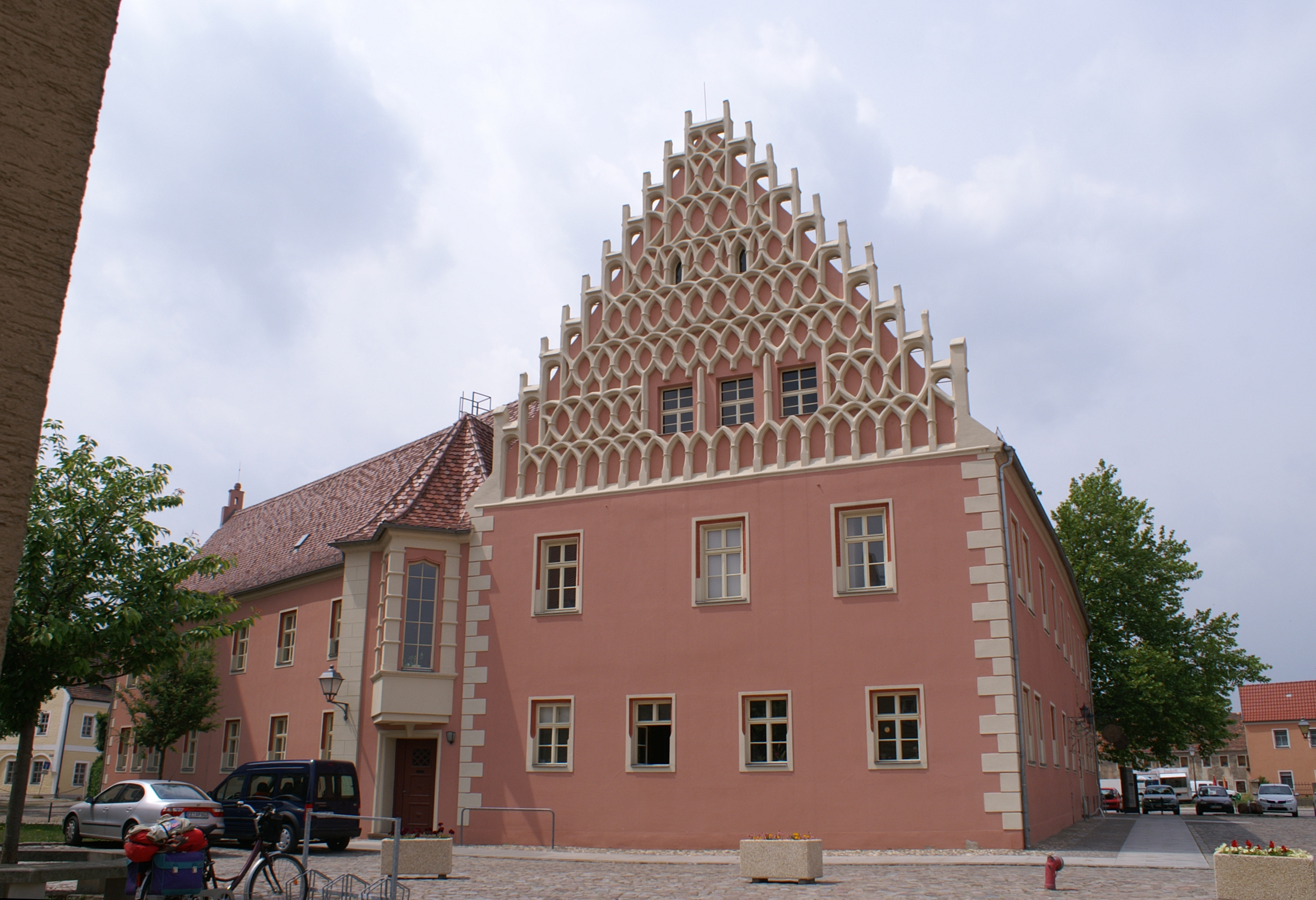 town hall of Mühlberg/Elster